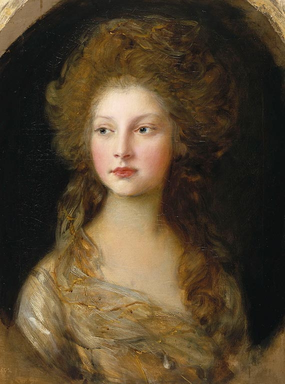 Portrait of Princess Elizabeth of the United Kingdom (1770-1840)